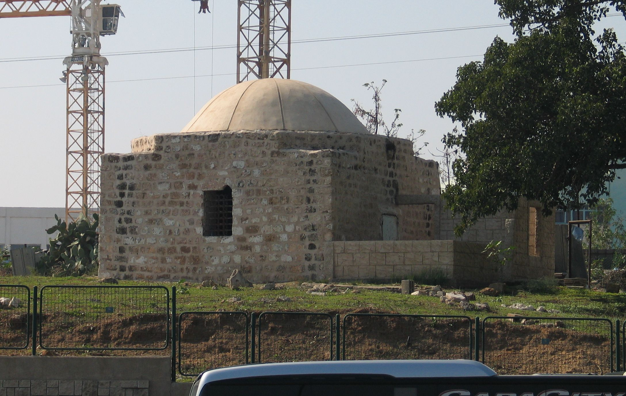 Holon, Israel.